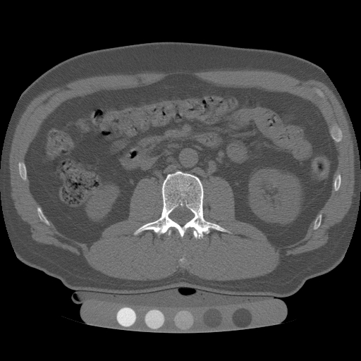 Axial CT image of the spine with calibration phantom.